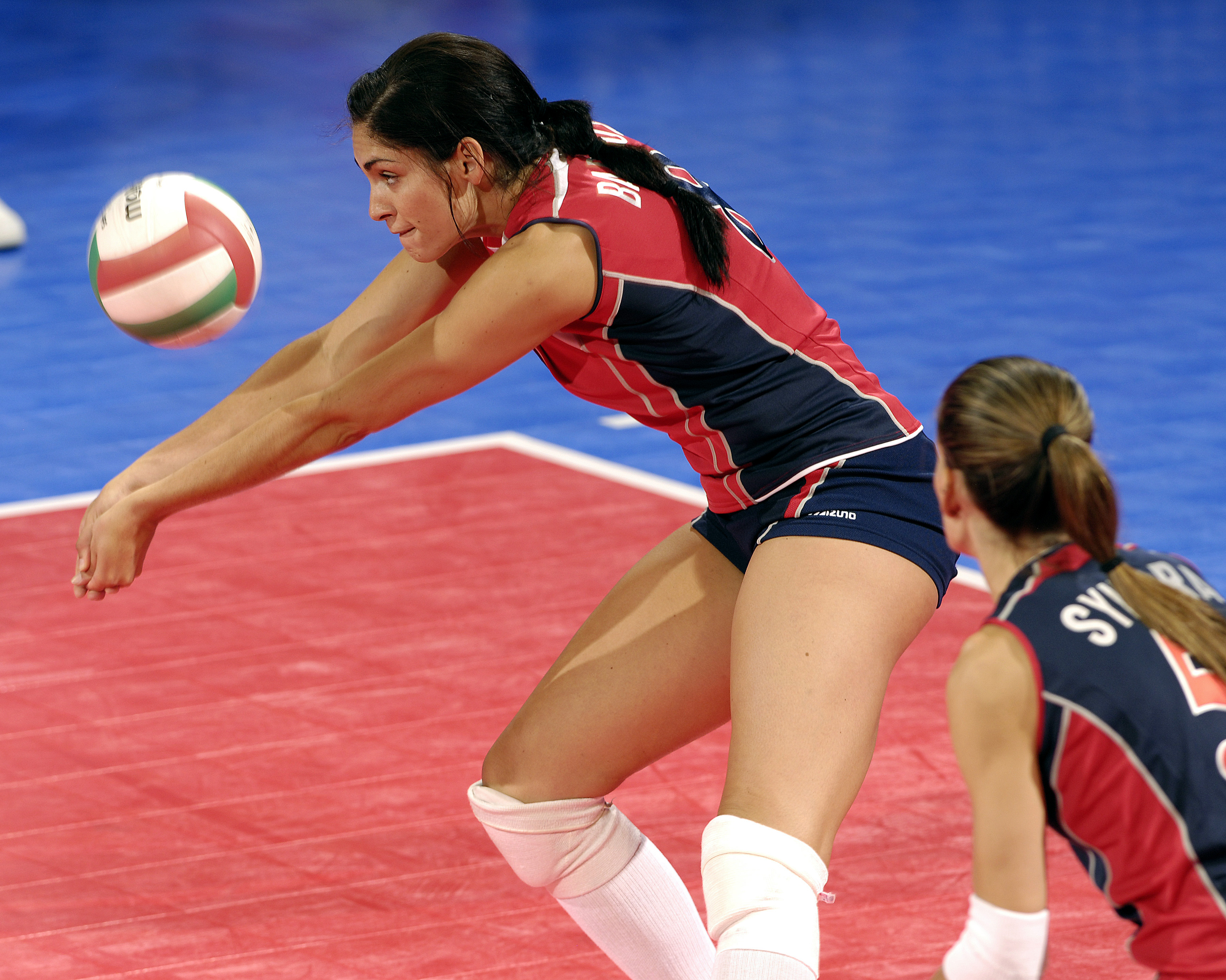 Cynthia Barboza, a member of the U.S. Women's National Volleyball Team, returns a serve during an exhibition match against top-ranked Brazil at Clune Arena on the campus of the U.S. Air Force Academy, Colo., June 14, 2008. Team USA is concluding a three-match 2008 U.S. Olympic Team Exhibition for Volleyball series that started June 11.